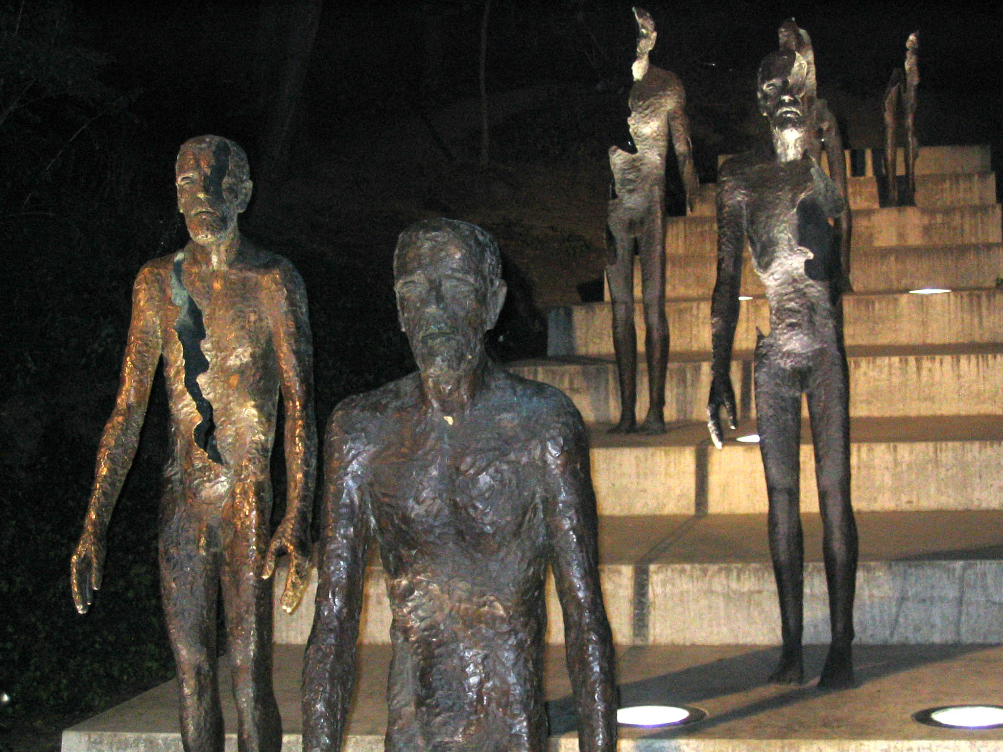 Prague - sculpture (about the deteriorating effects of communism on man?)